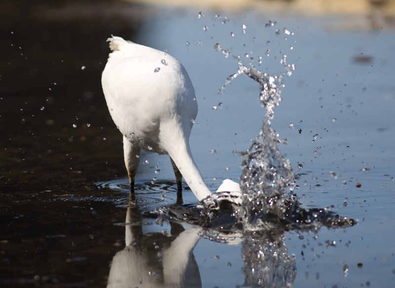 A Great Egret (ardea alba), spearing a fish on Lady Bird Lake, in Austin, Texas.